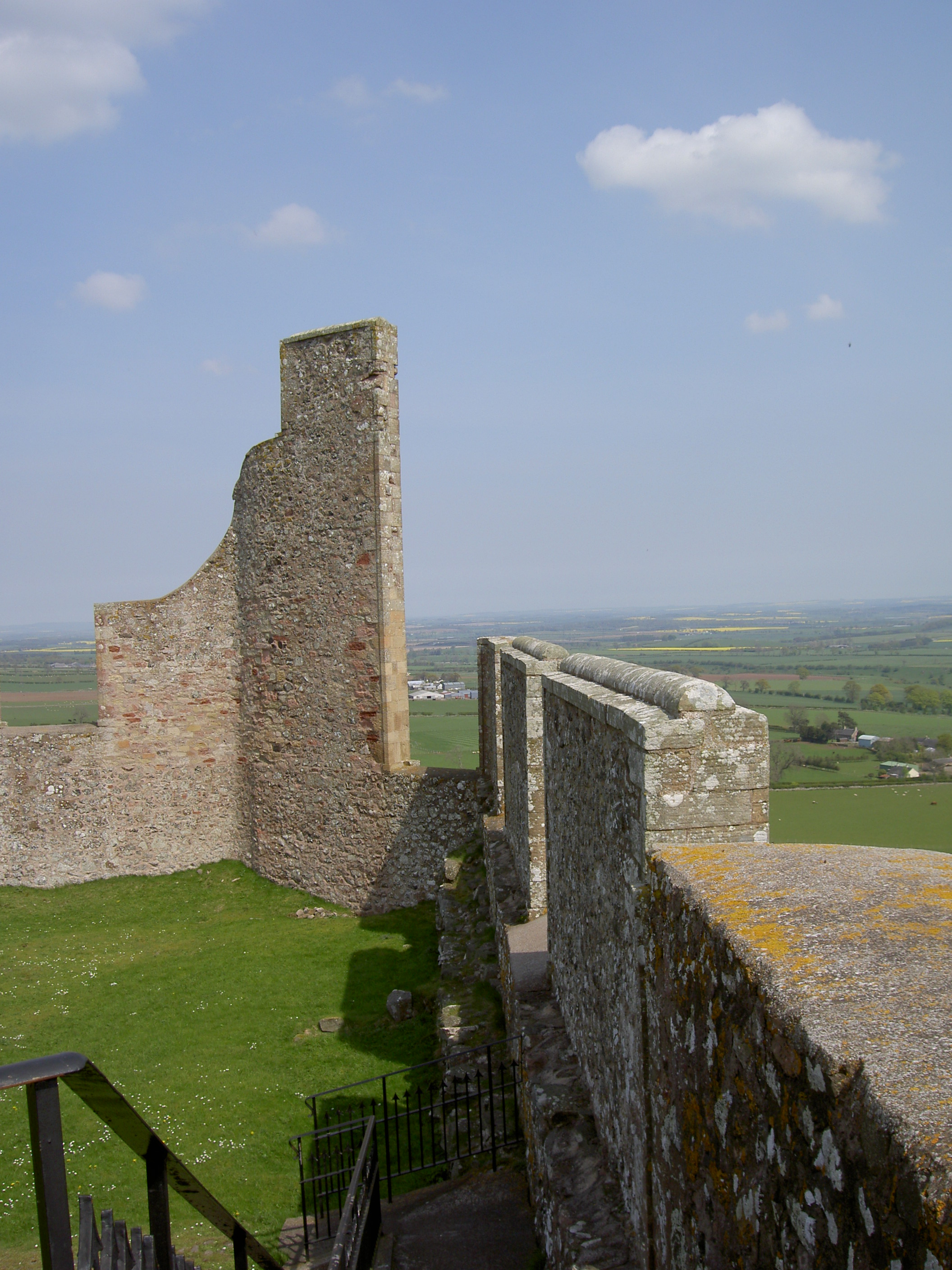 Crenellation at Hume Castle 01 June 2005, 08:30:08 Brendan Douglas-Hamilton